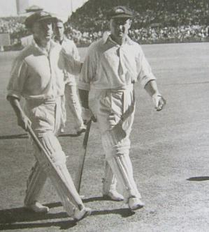 Don Bradman and Sid Barnes walk from the field in the match when both scored 234 v England in Australia